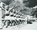 肋木体操(Wall bars and Japanese boys 1919: from website of Tottori Pref.Japan)